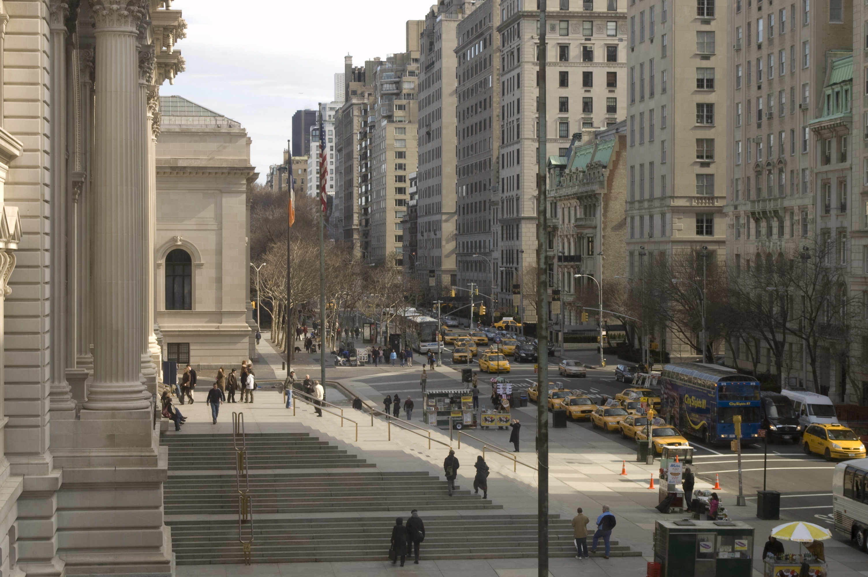 A view of Fifth Avenue from the Metropolitan Museum of Art.